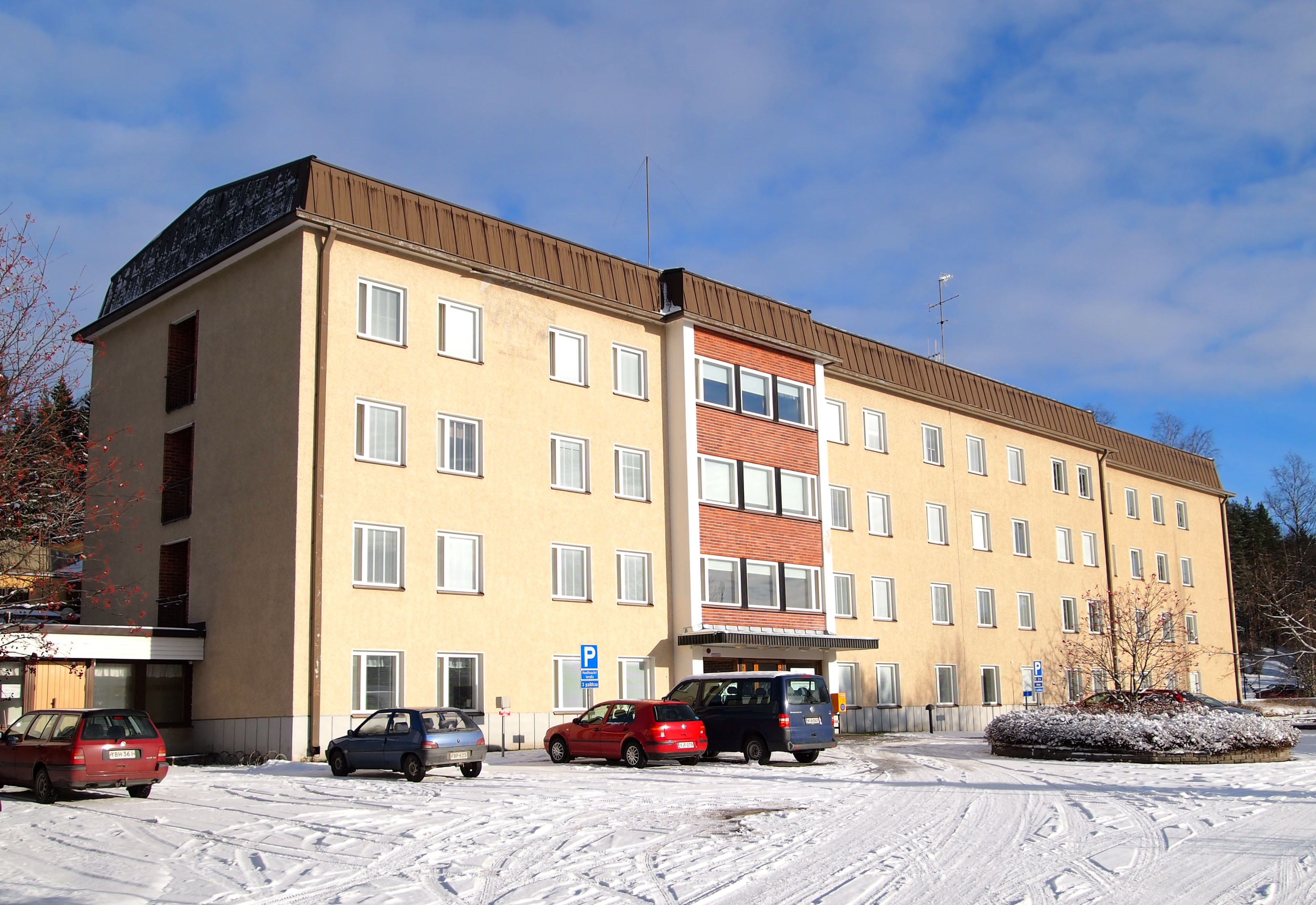 Hospital Kangasvuoren sairaala in Jyväskylä.